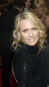 Robin Wright Penn, All the King's Men Premiere